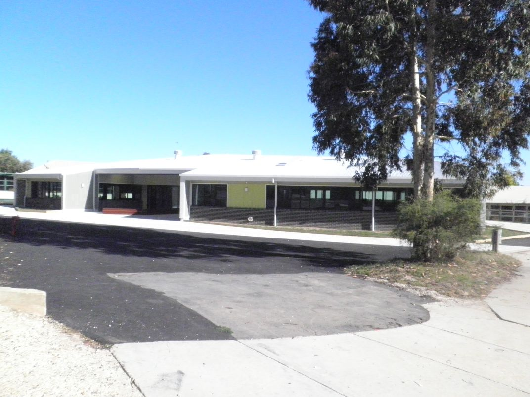 The first building completed in the college's major building program